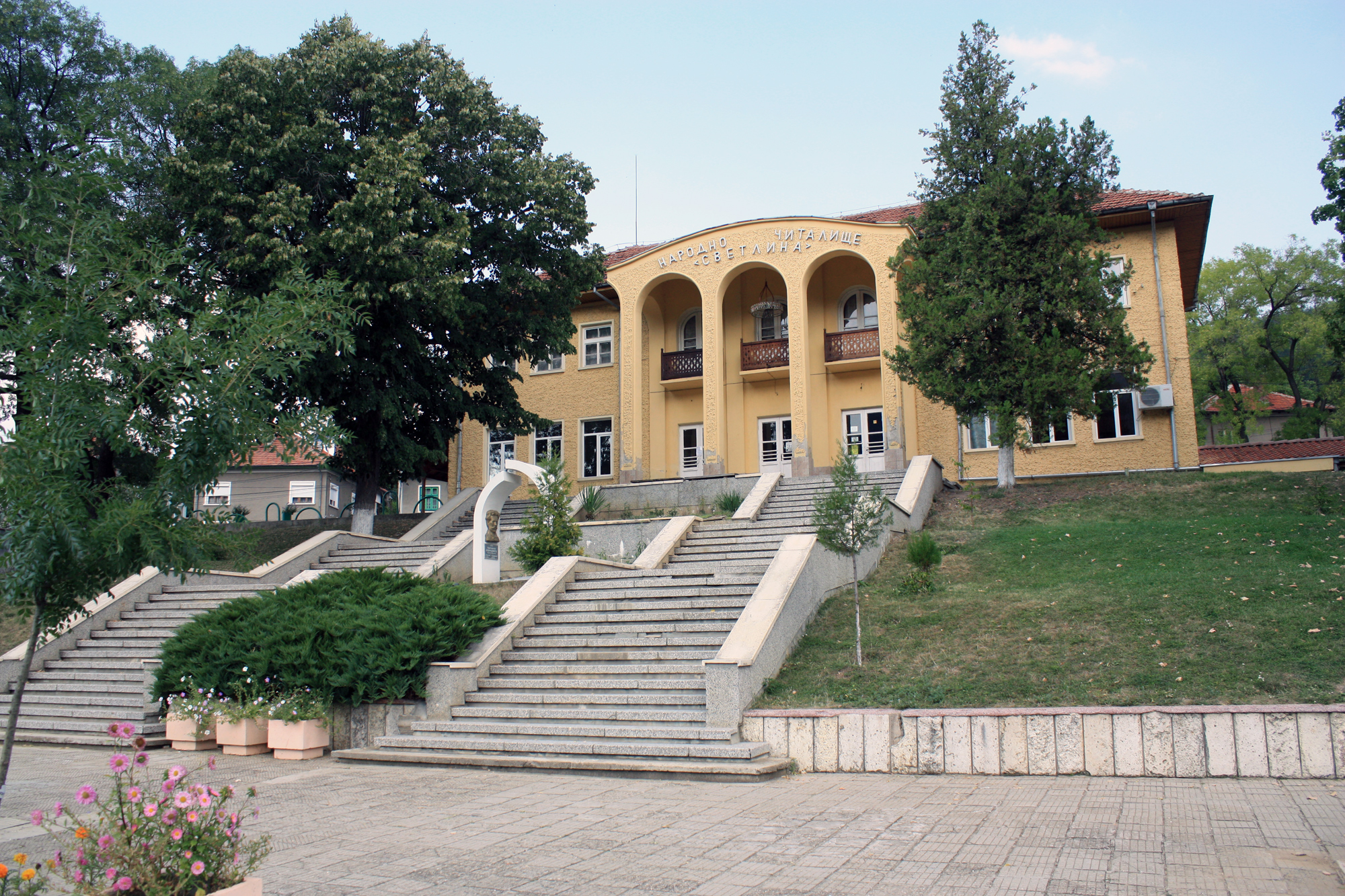 Culture club house in Dushantsi, Bulgaria